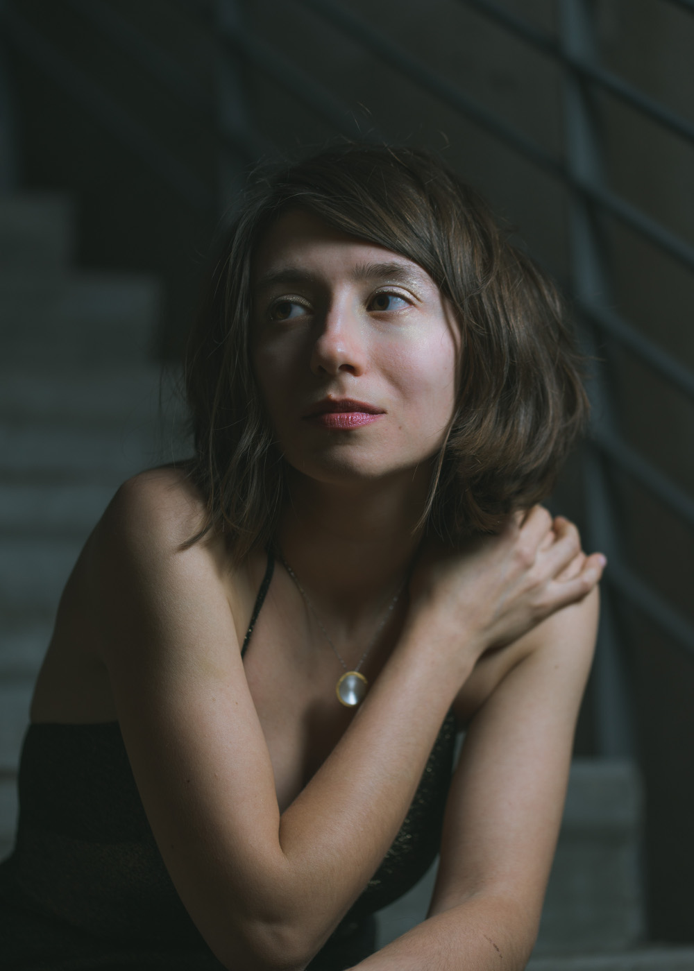 Fidan Aghayeva-Edler 2019 in Berlin